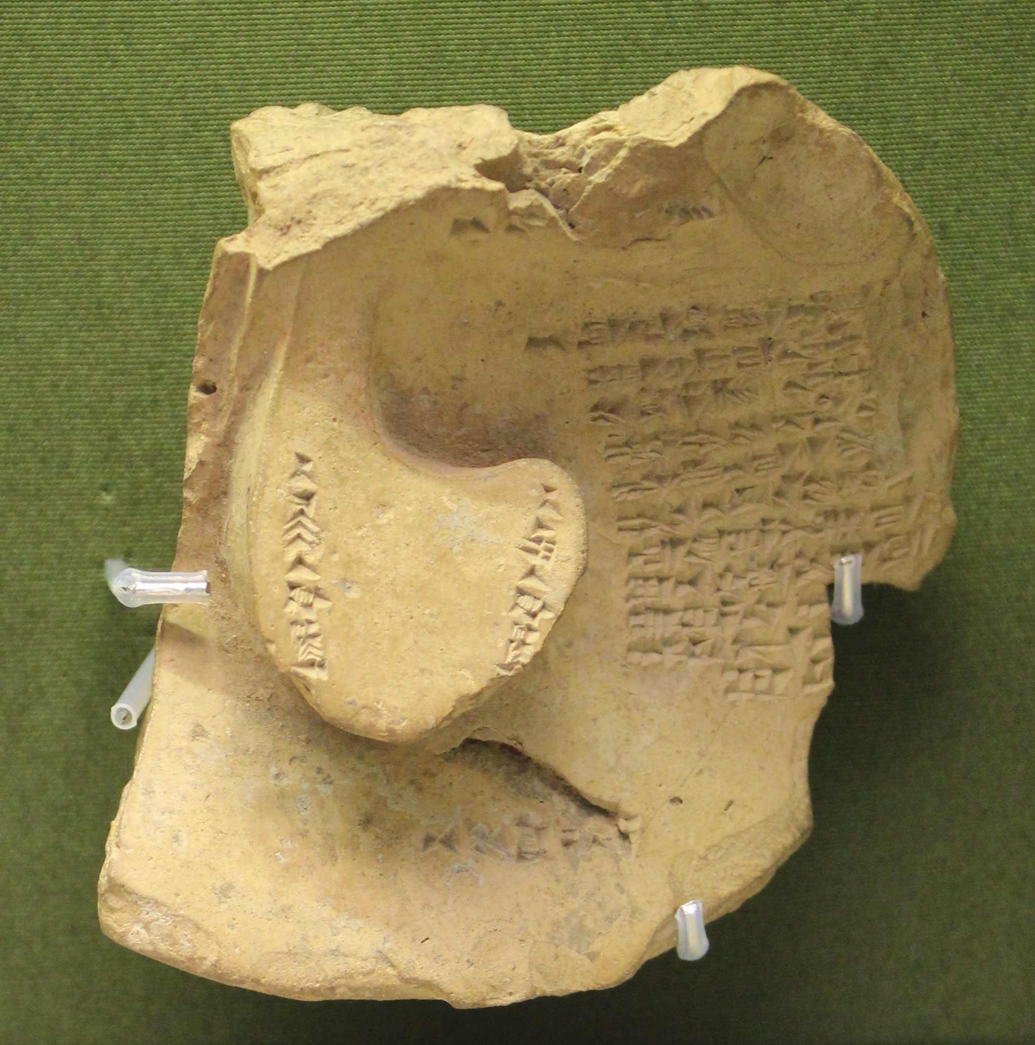 Clay model of a sheep lung, contains omens, used by priests specialized in divination on lungs and livers (barû) to teach their students the anatomy of this part of a sheep and its significance in foretelling the future. From Nineveh, Library of Ashurbanipal, 7th century BC. Rm.620.